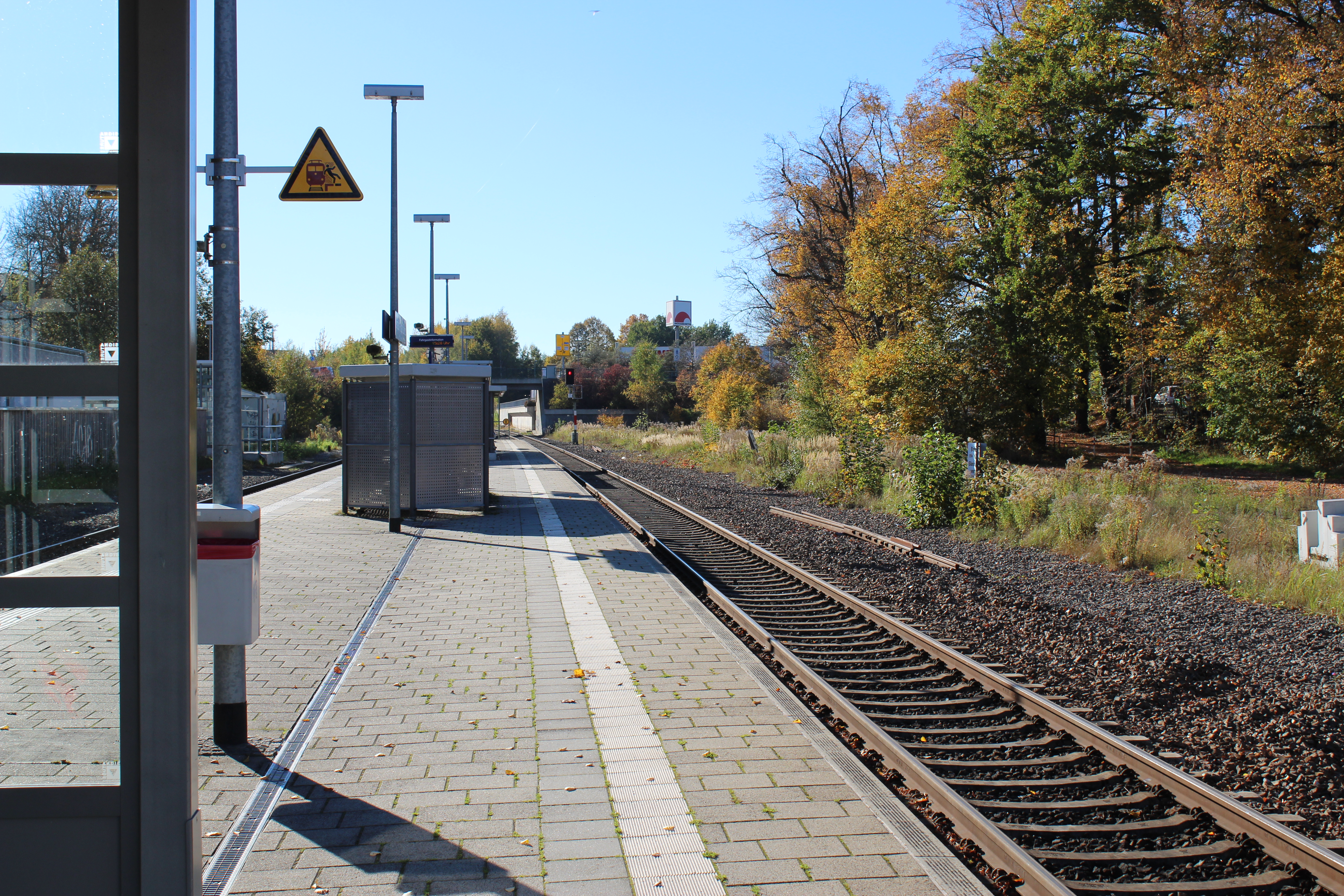 train station Hermsdorf-Klosterlausnitz, platforms